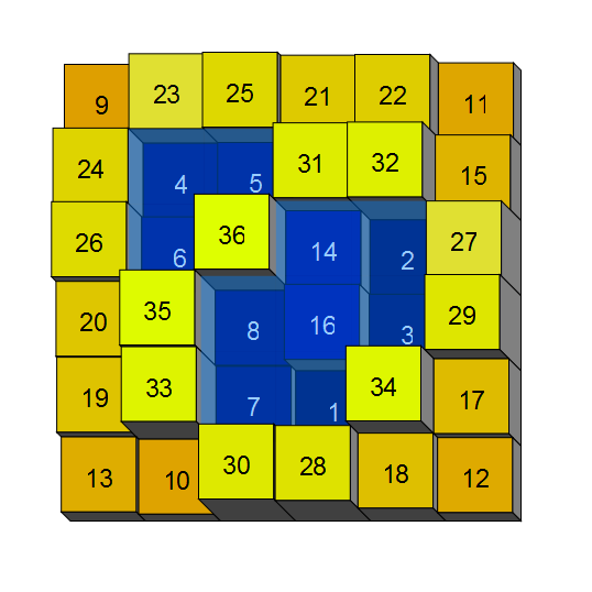 Magic Square 6x6 with maximum known retention 192 units. The value in each cell specifies the height of the cell. [Water Retention on Mathematical Surfaces]